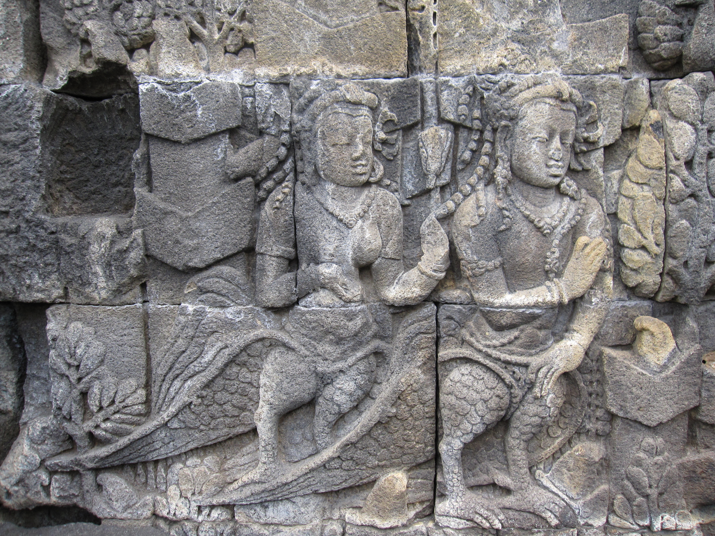 Stone frieze of Buddhist stupa Borobudur in central Java, Indonesia.